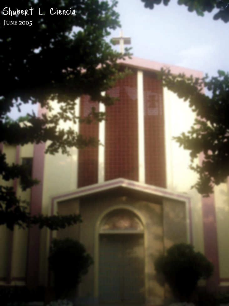 Orig. Flickr desc: The church was started to be built in 1821 but was left only half finished. It was recently renovated with the facade totally rebuilt. Today, only the sidewalls of the old structure is visible. More on Ilocos Sur churches at .